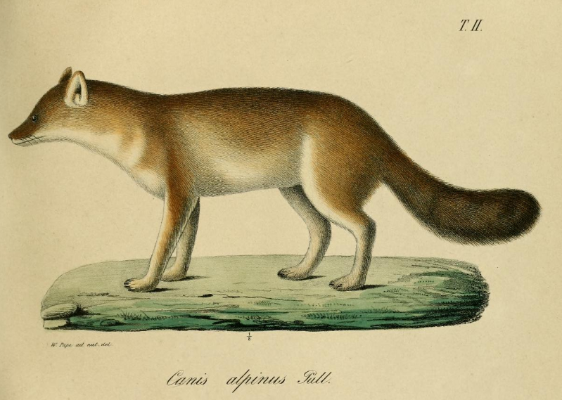 Engraving of Siberian dhole